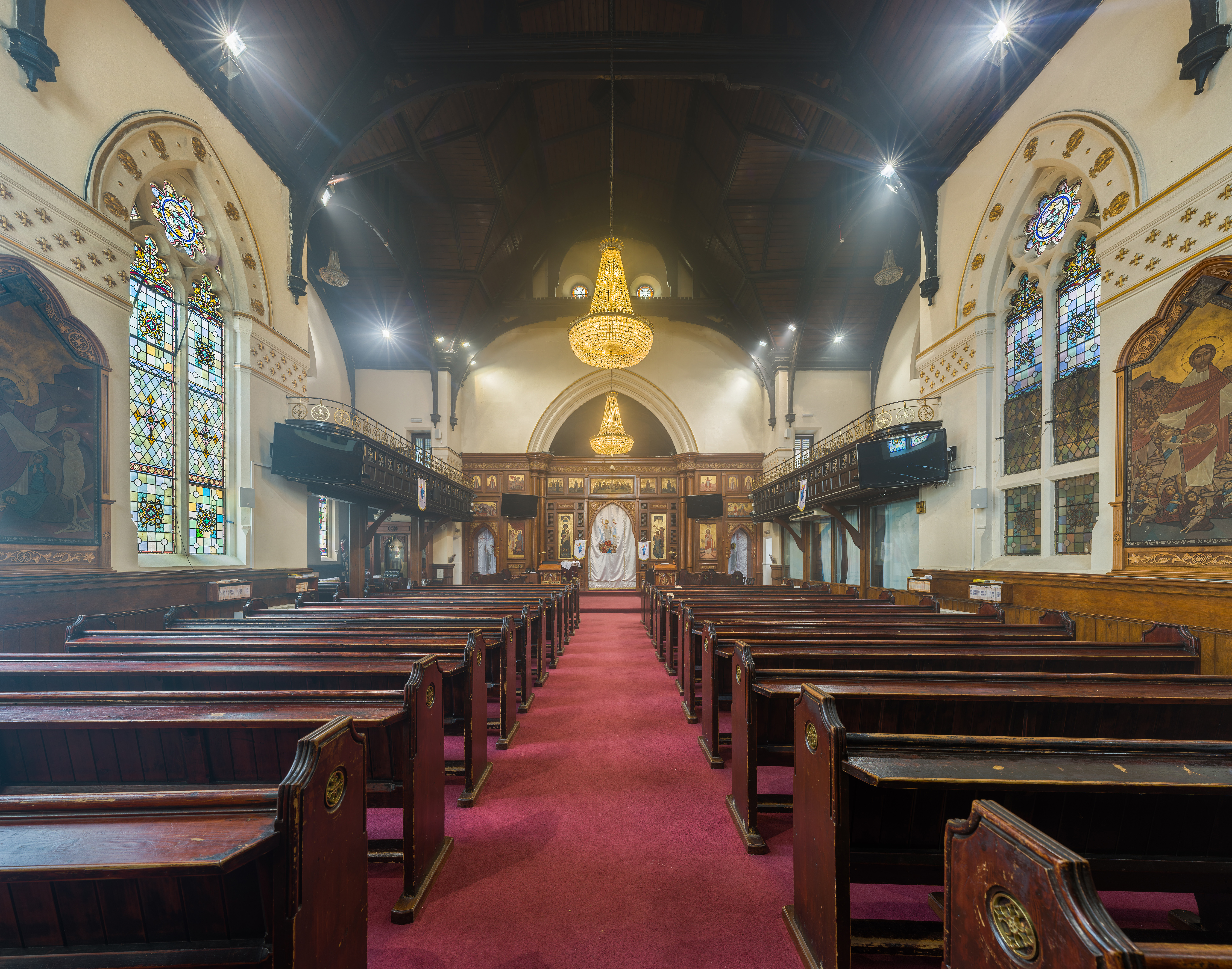 The interior of St Mark's Coptic Church in Kensington, London, England.